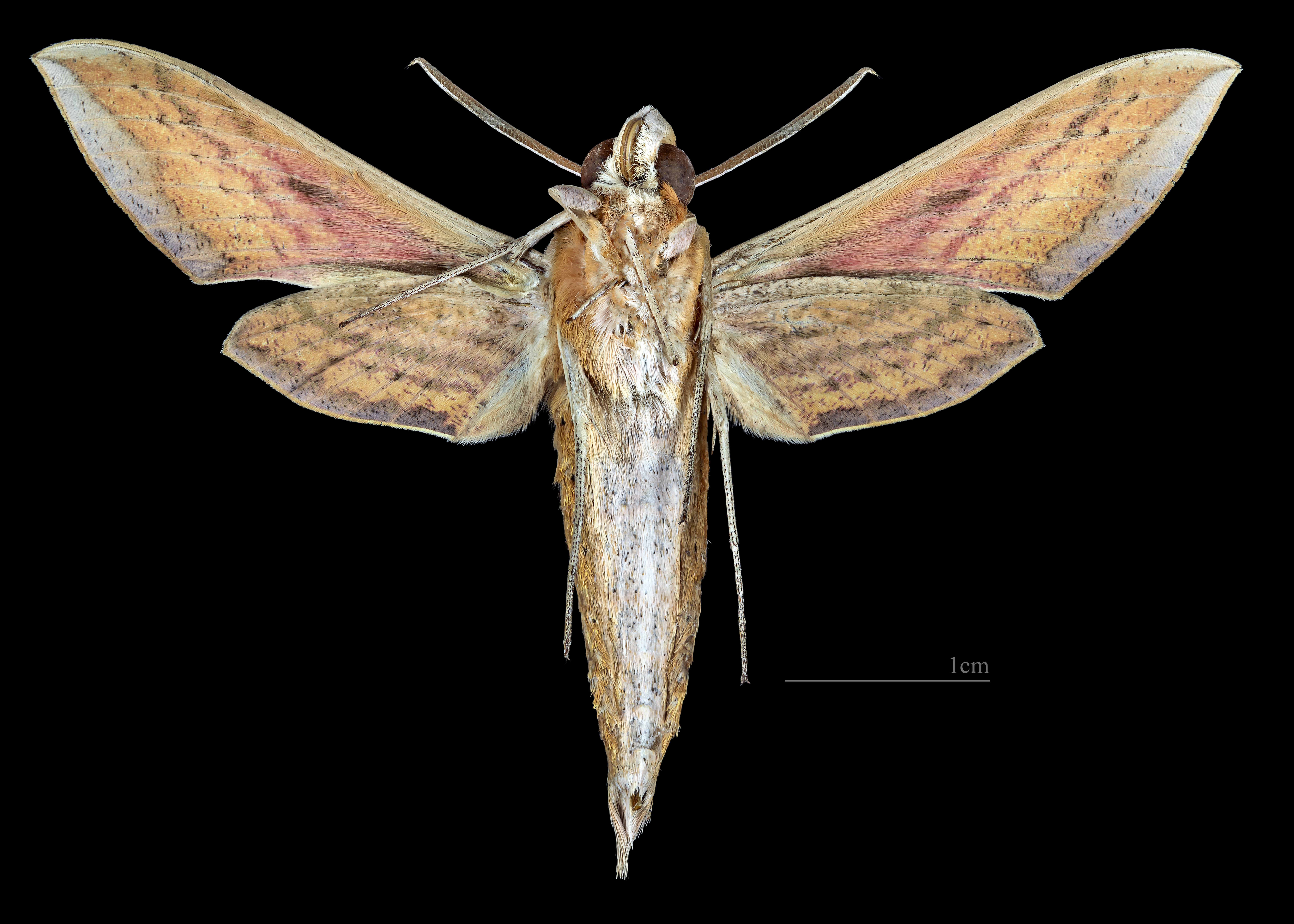 Hippotion echeclus - △ Ventral side Collection of the Mathematician Laurent Schwartz